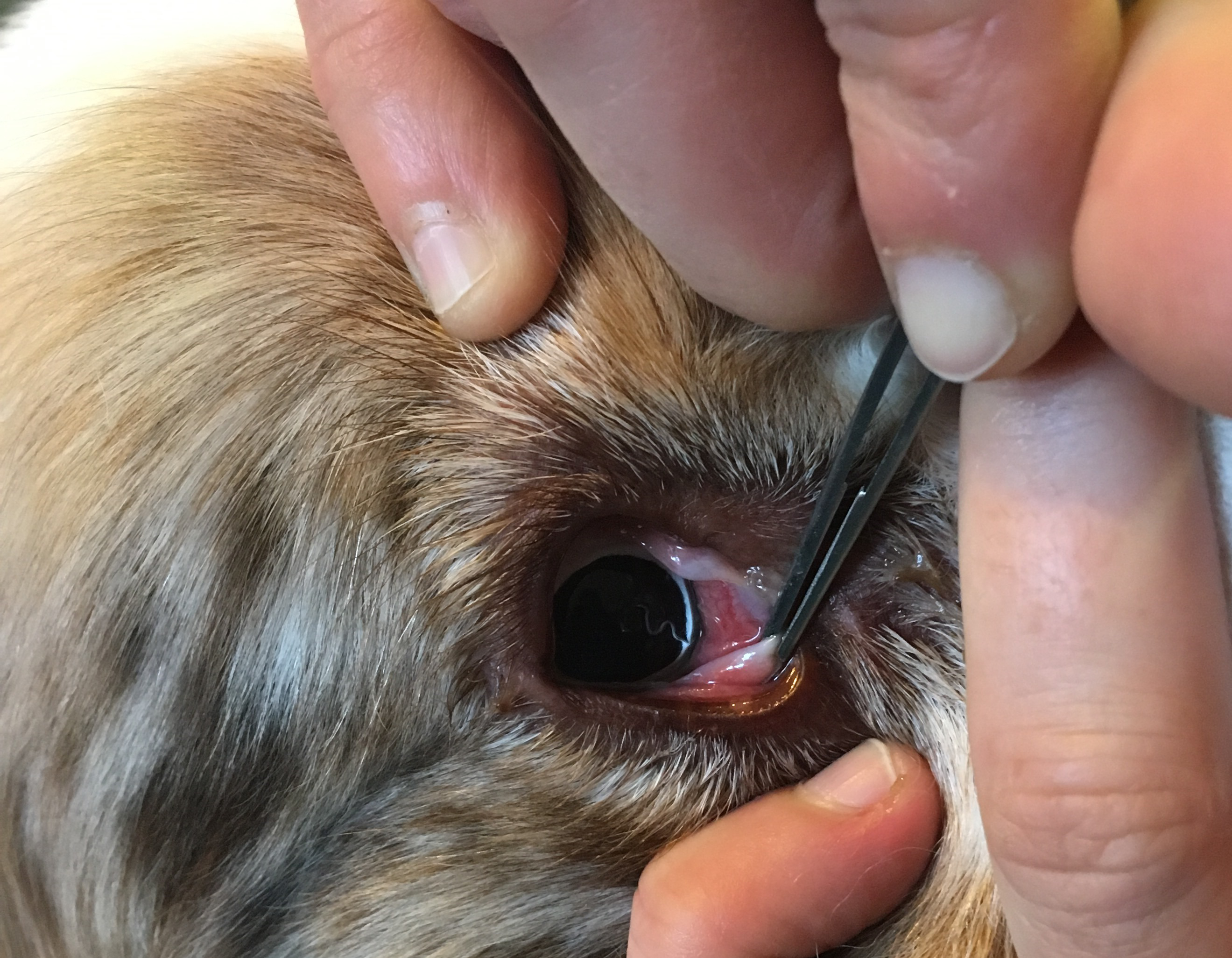 Figure 2 of paper Presence of one single Thelazia callipaeda in the ocular cavity of one control dog; note conjunctivitis.